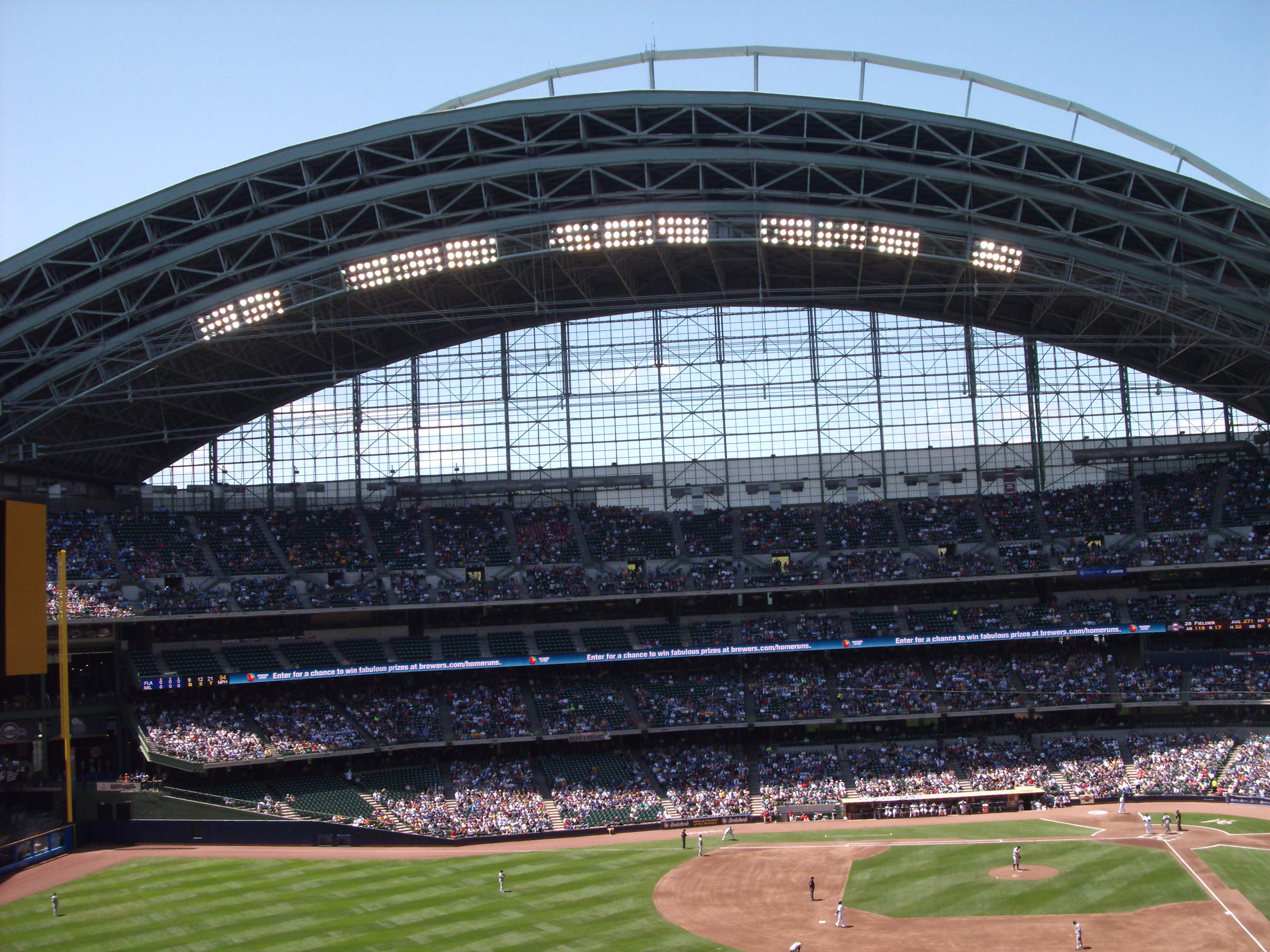 This photograph depicts Miller Park, home stadium of the Milwaukee Brewers, in 2009.